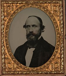 Governor Charles Robinson, ambrotype, ca. 1850s., Courtesy of the Kansas State Historical Society.